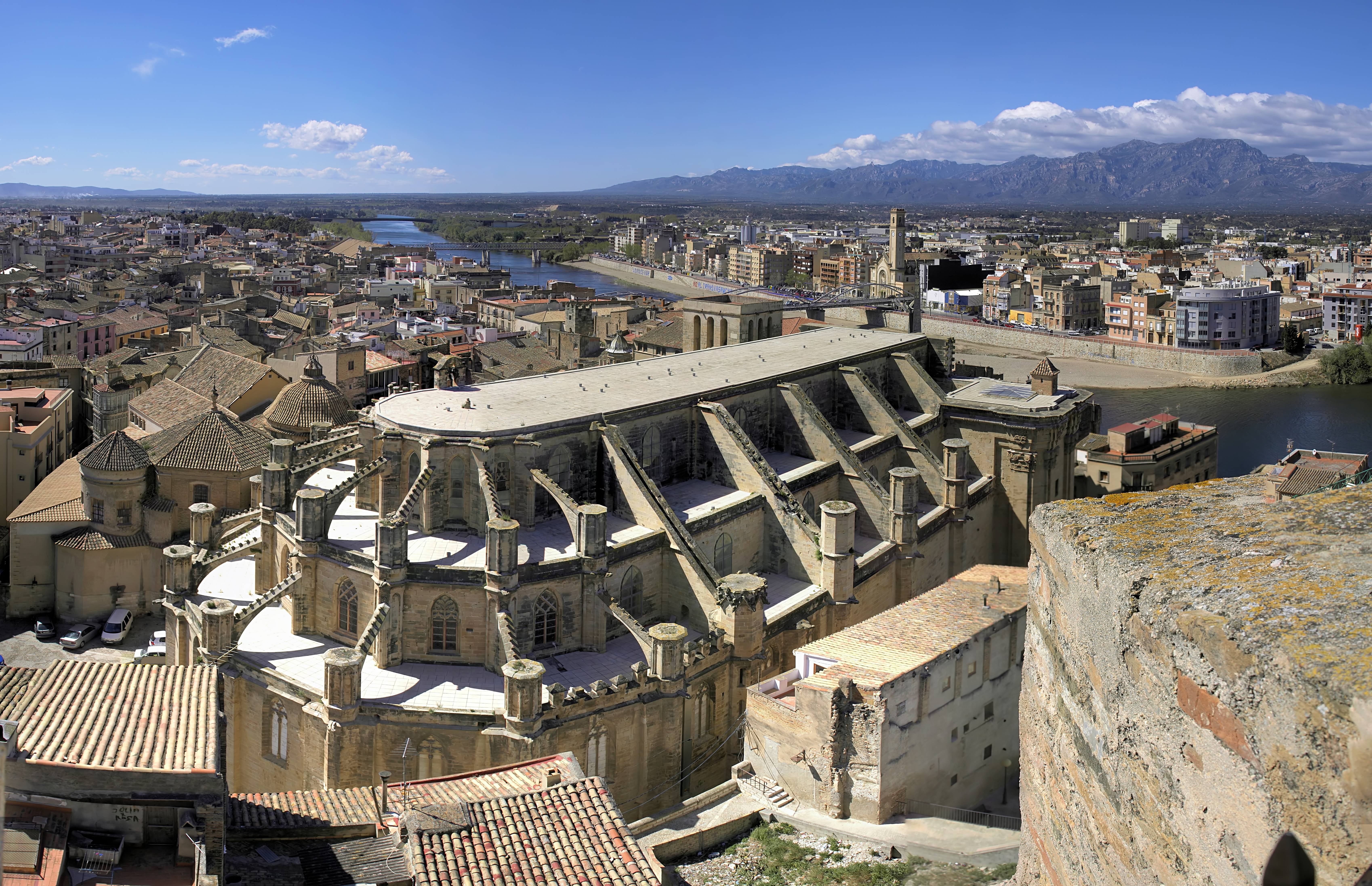 Santa María Cathedral of Tortosa, Catalonia, Spain